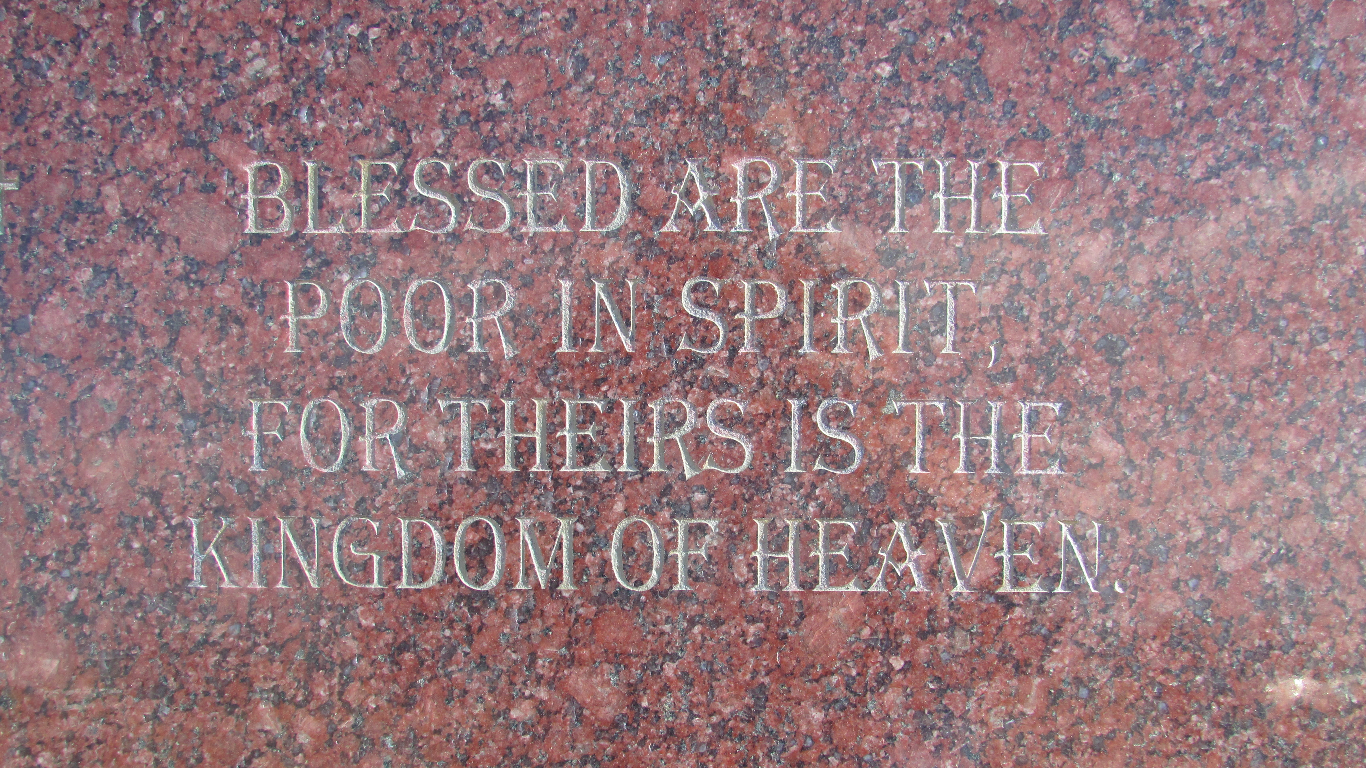 The Beatitudes are eight blessings recounted in the Sermon on the Mount in the Gospel of Matthew.